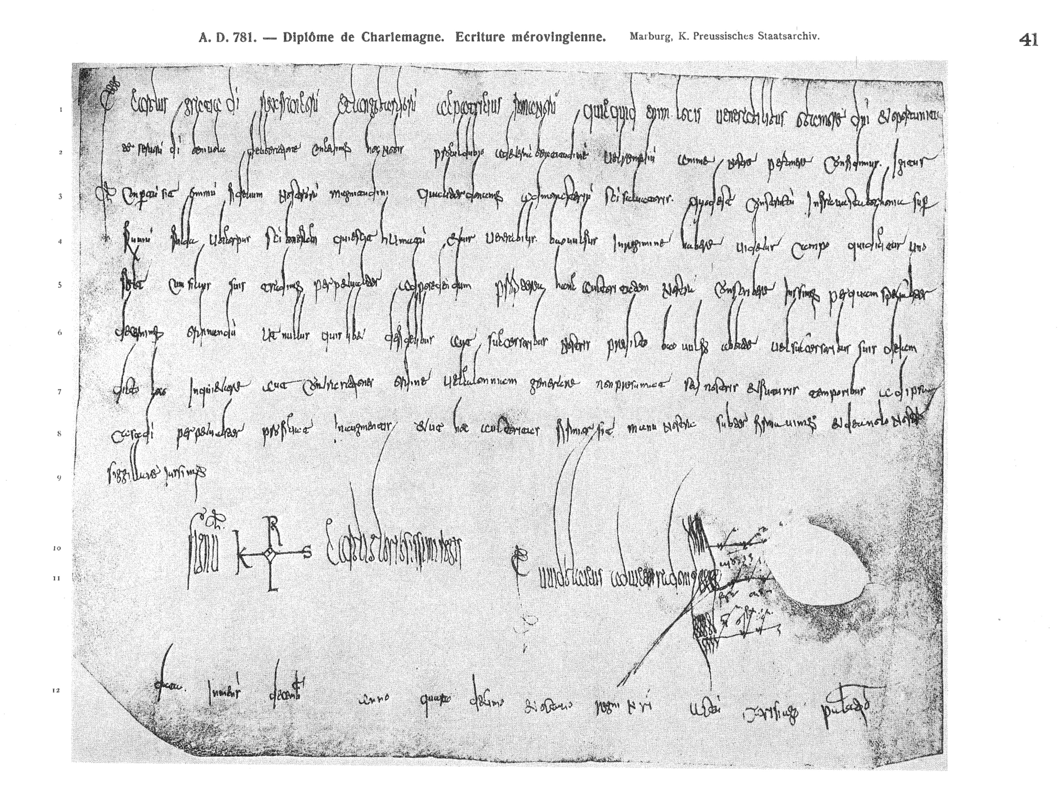 Charlemagne's Diploma of 781, archived in Marburgo, from Steffens, paleographie latin, trav. 41, p. 210